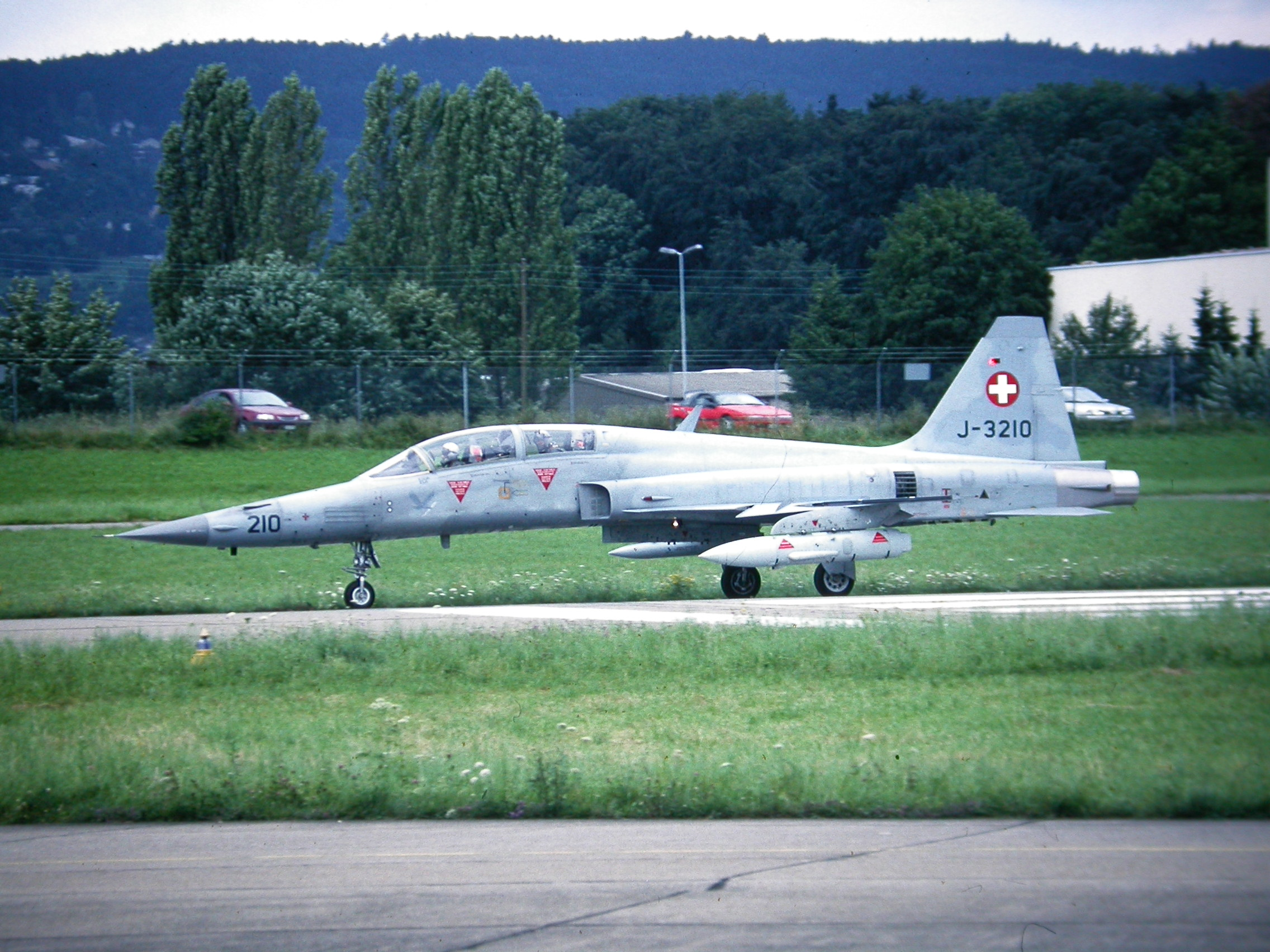 F-5F Swiss Air Force J-3210 carrying a Vista ECM pod.